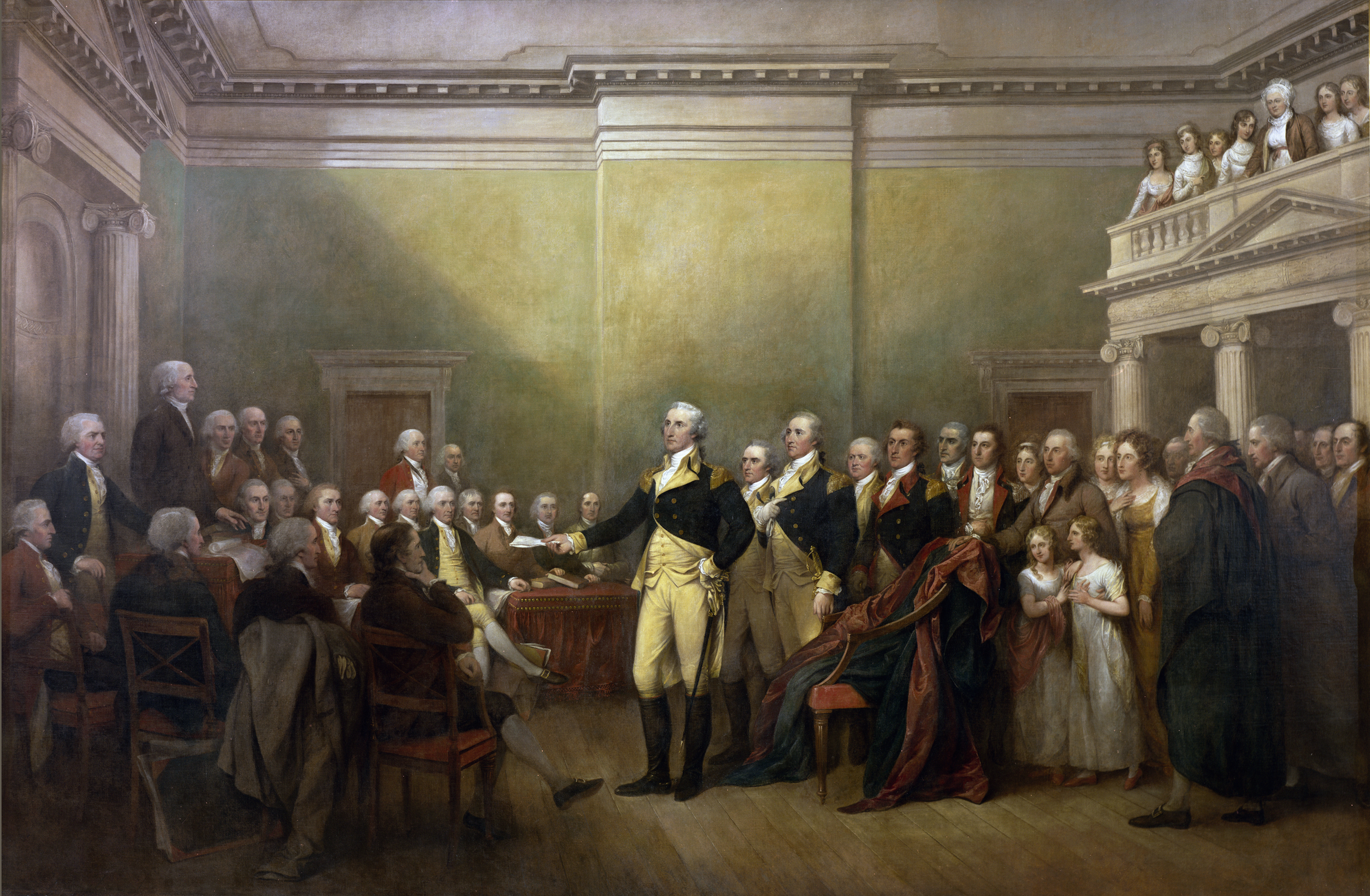 General George Washington Resigning His Commission: depicts George Washington's resignation as commander-in-chief of the Army to the Congress, which was then meeting at the Maryland State House in Annapolis, on December 23, 1783. This action was of great significance in establishing civilian, rather than military rule, leading to a republic, rather than a dictatorship. Washington stands with two aides-de-camp addressing the president of the Congress, Thomas Mifflin, and others, such as Elbridge Gerry, Thomas Jefferson, James Monroe, and James Madison. Mrs. Washington and her three grandchildren are shown watching from the gallery, although they were not in fact present at the event. John Trumbull (1756–1843) was born in Connecticut, the son of the governor. After graduating from Harvard University, he served in the Continental Army under General Washington. He studied painting with Benjamin West in London and focused on history painting. This oil painting on canvas is now located in the United States Capitol rotunda in Washington D.C. Its dimensions are 365.76 cm × 548.64 cm (144.00 in × 216.00 in).